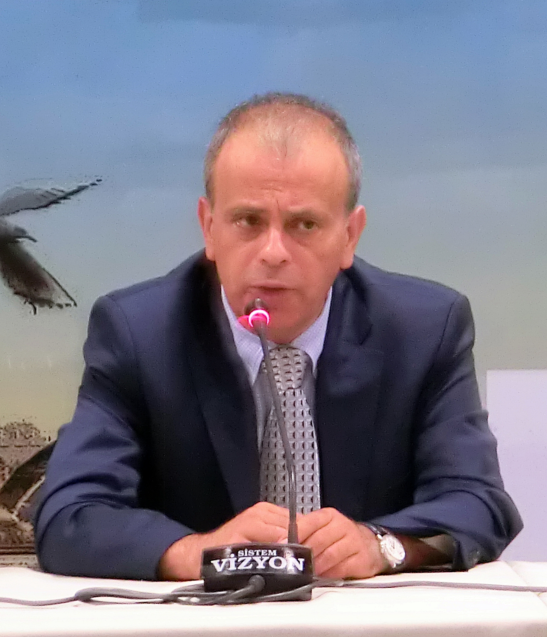 Ali Nihat Yazıcı, chess organizer from Turkey